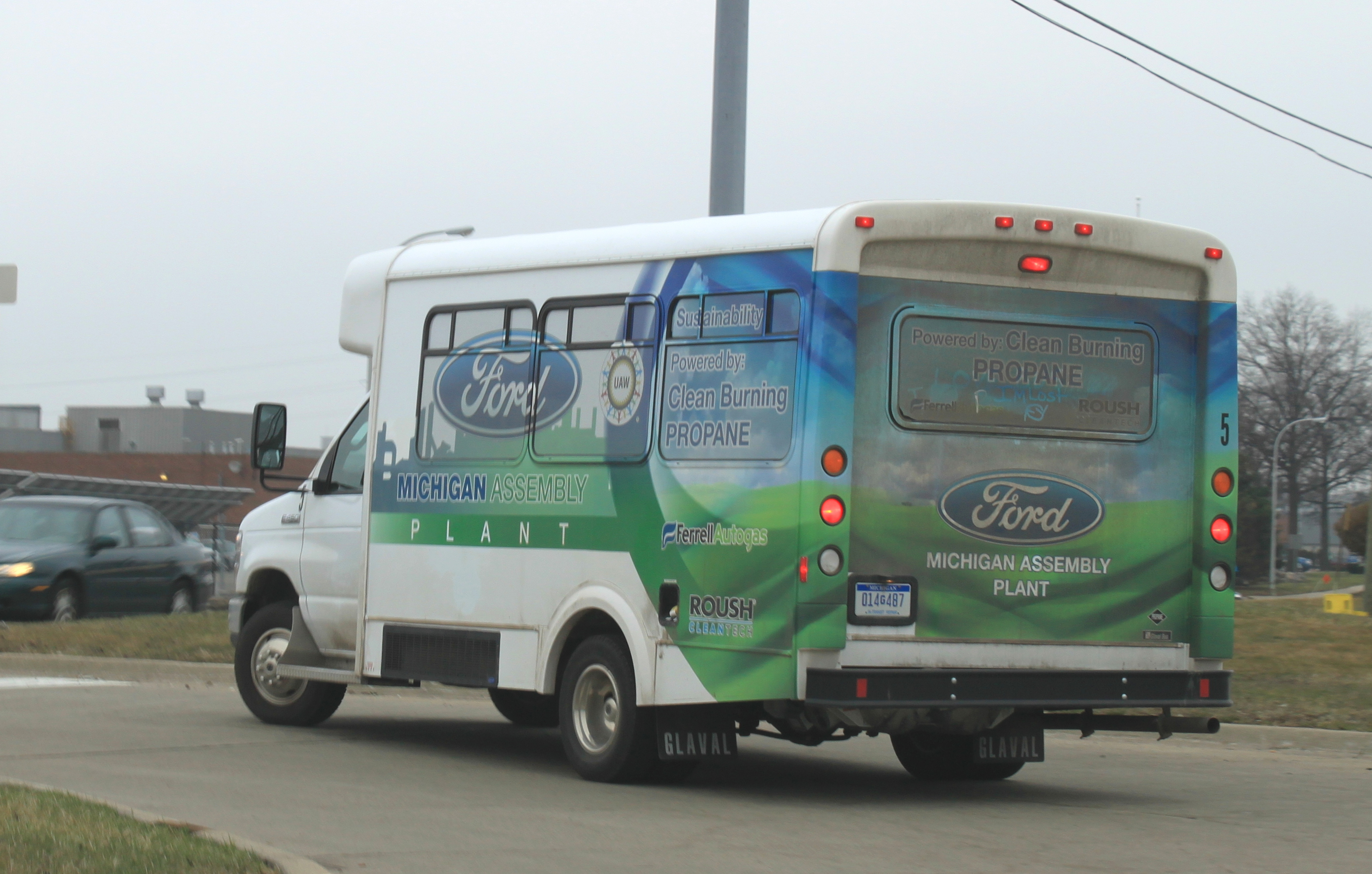 Propane-powered Ford Van (inscription: Ford Motor Company assembly plant); Wayne, Michigan